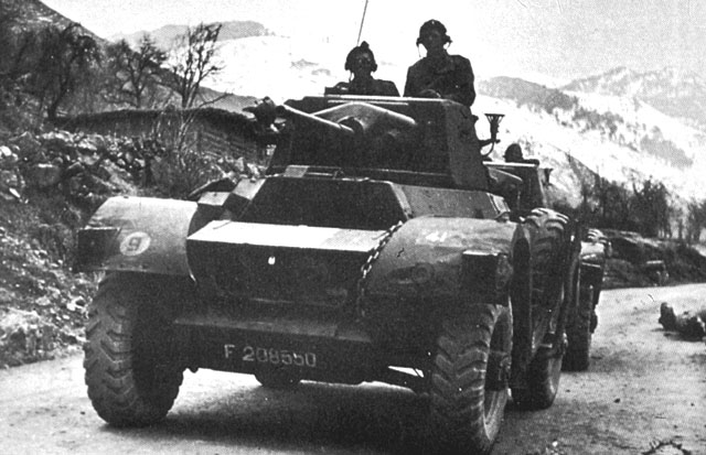 Daimler Armoured Car of the Indian Army, on road patrol in the Jammu & Kashmir state, keeping the strategic Baramula-Uri road clear of interference, 1948.